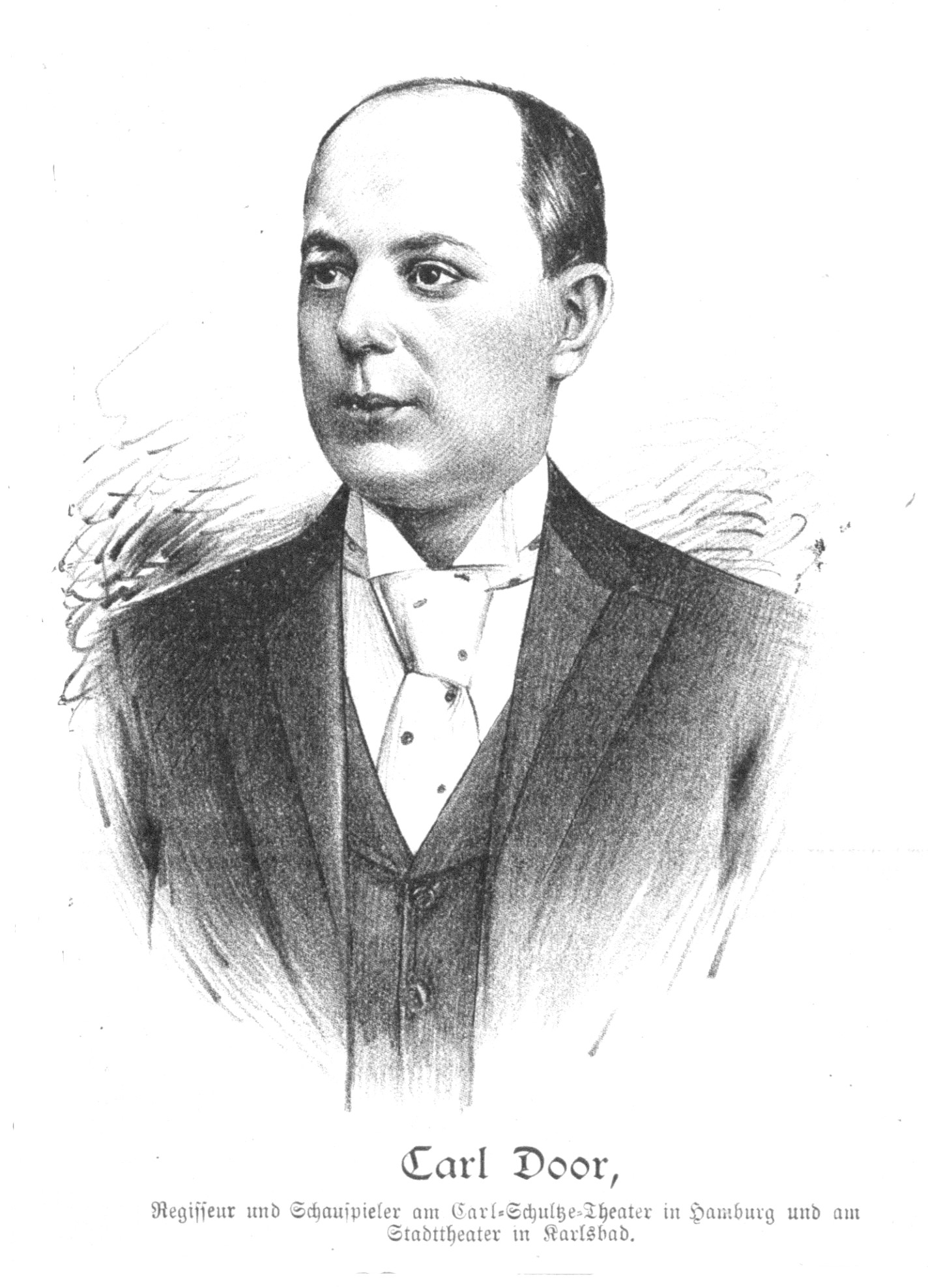 Portrait of Carl DoorCarl Door (1860-??), Austrian actor and theatre director